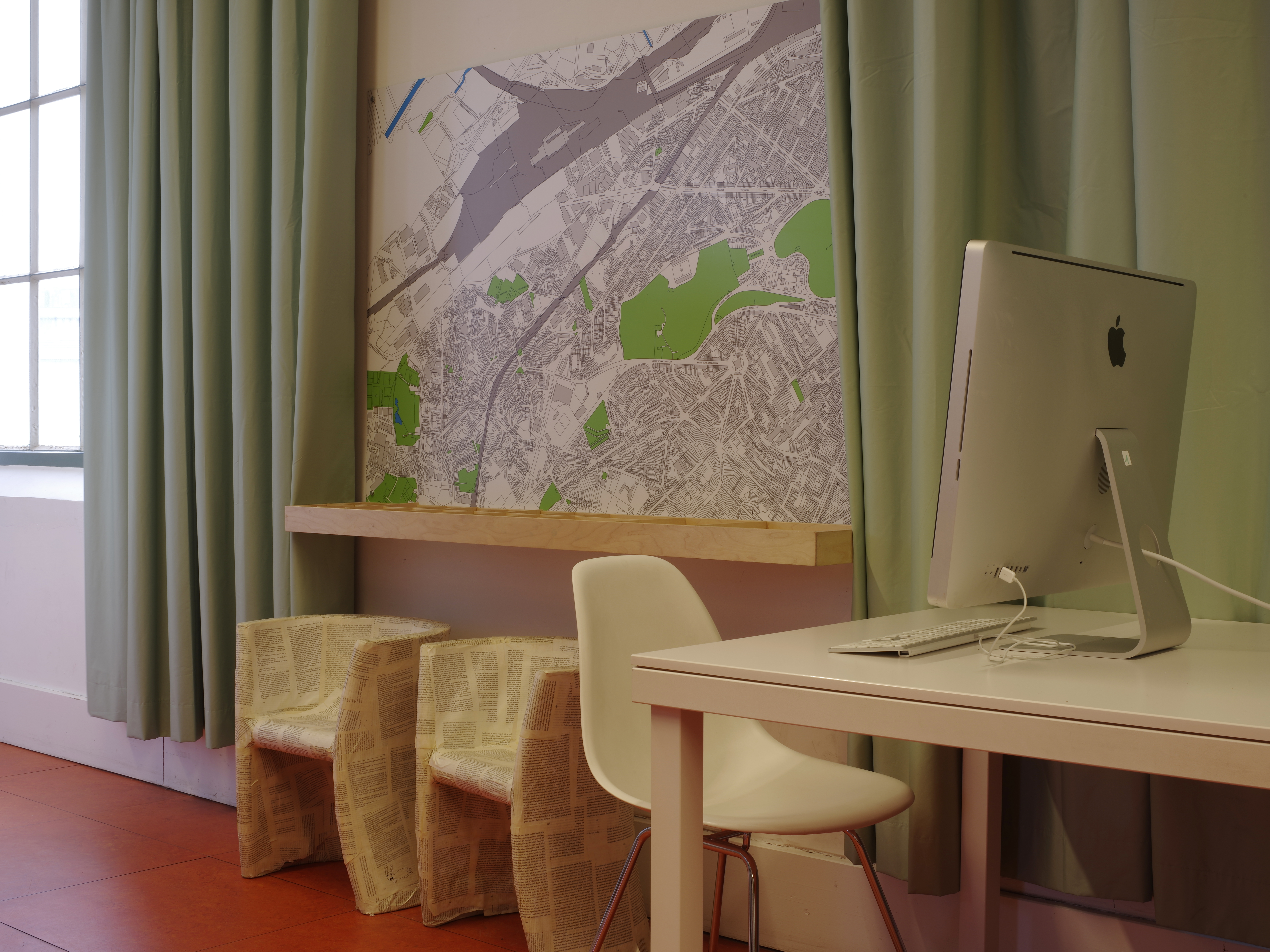 BLIB, public library Vorst - Forest, at avenue Van Volxem 364 in 1190 Brussels (Forest).